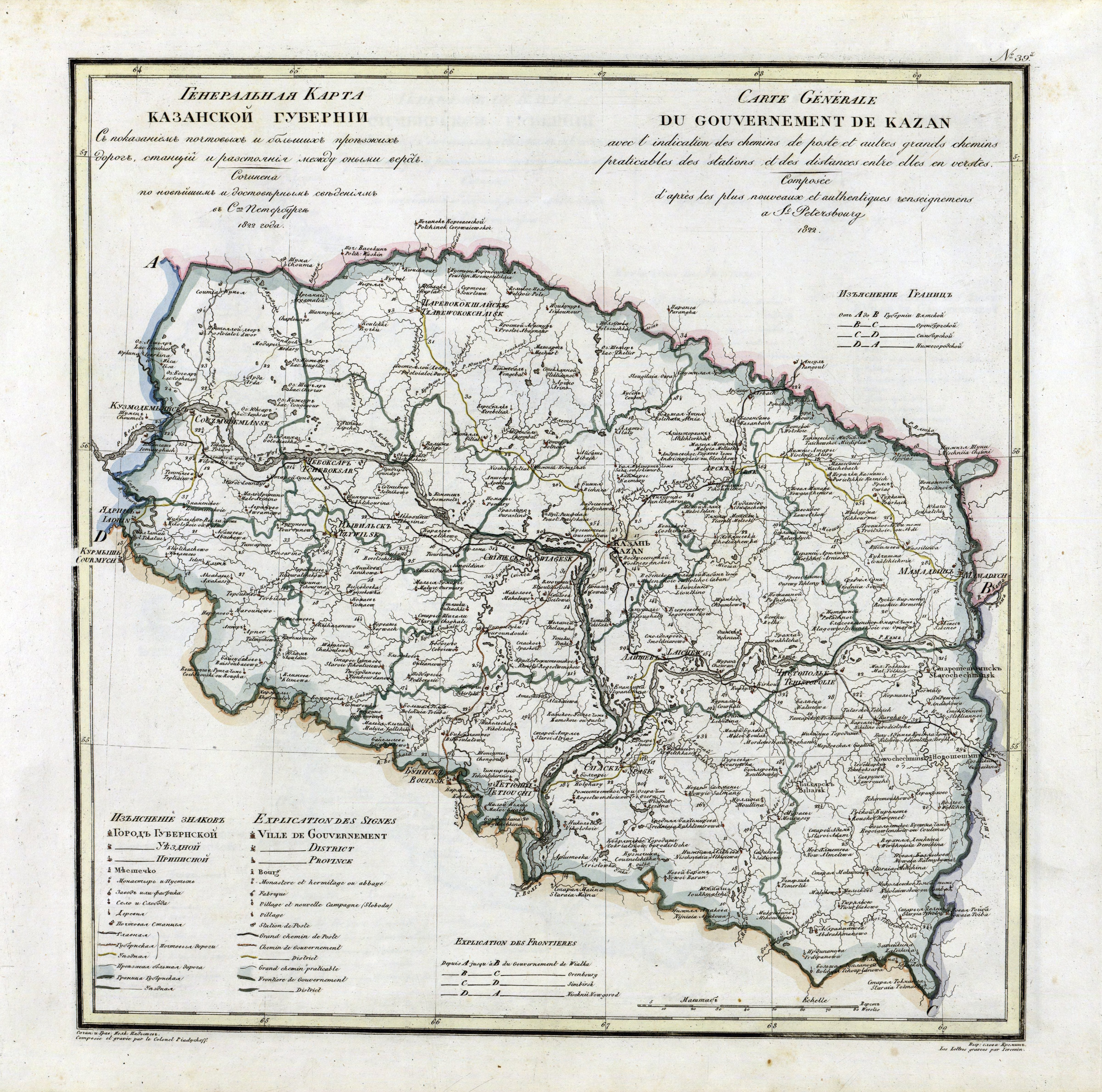 Kazan governorate